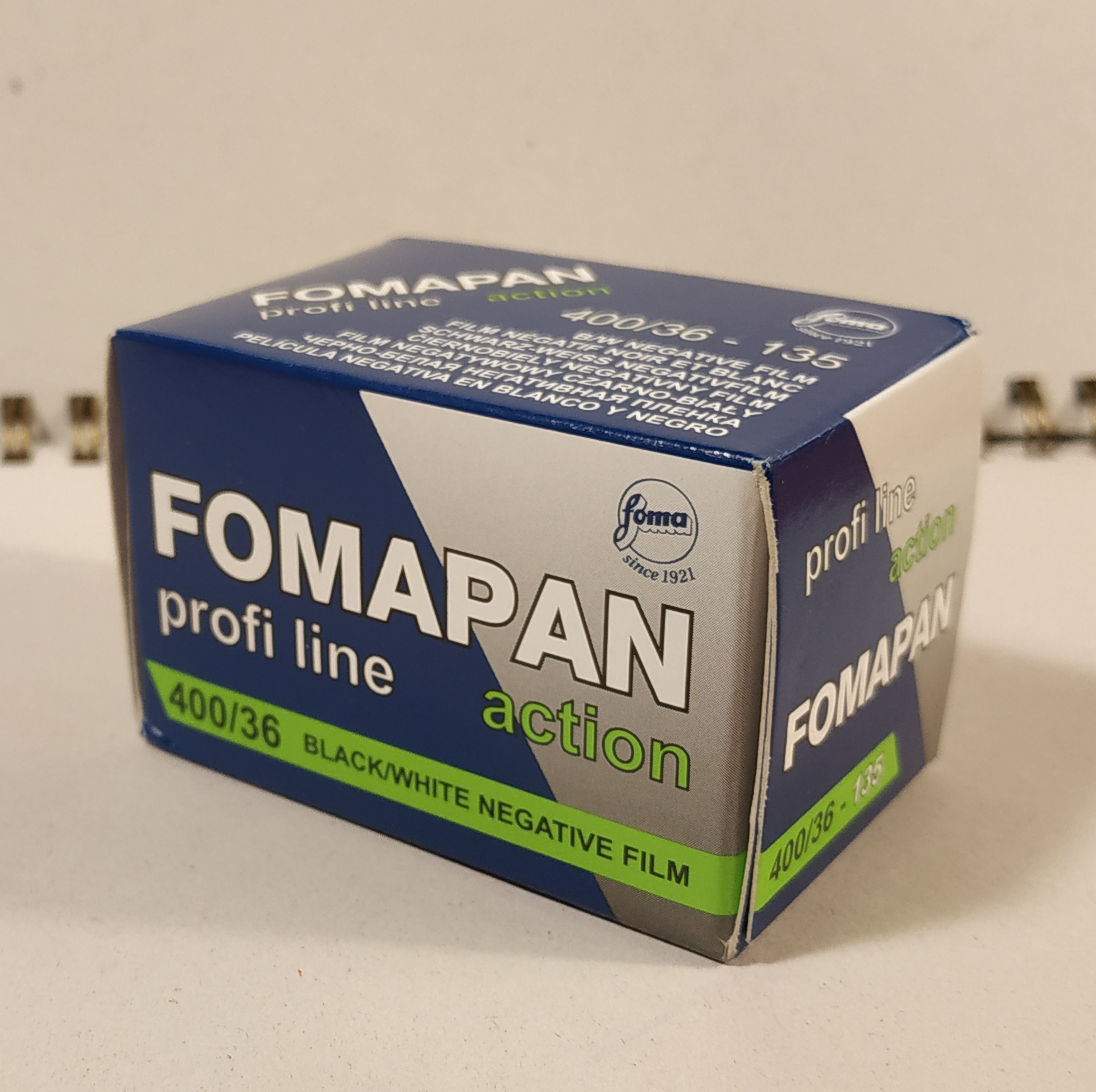 exp 2022-4